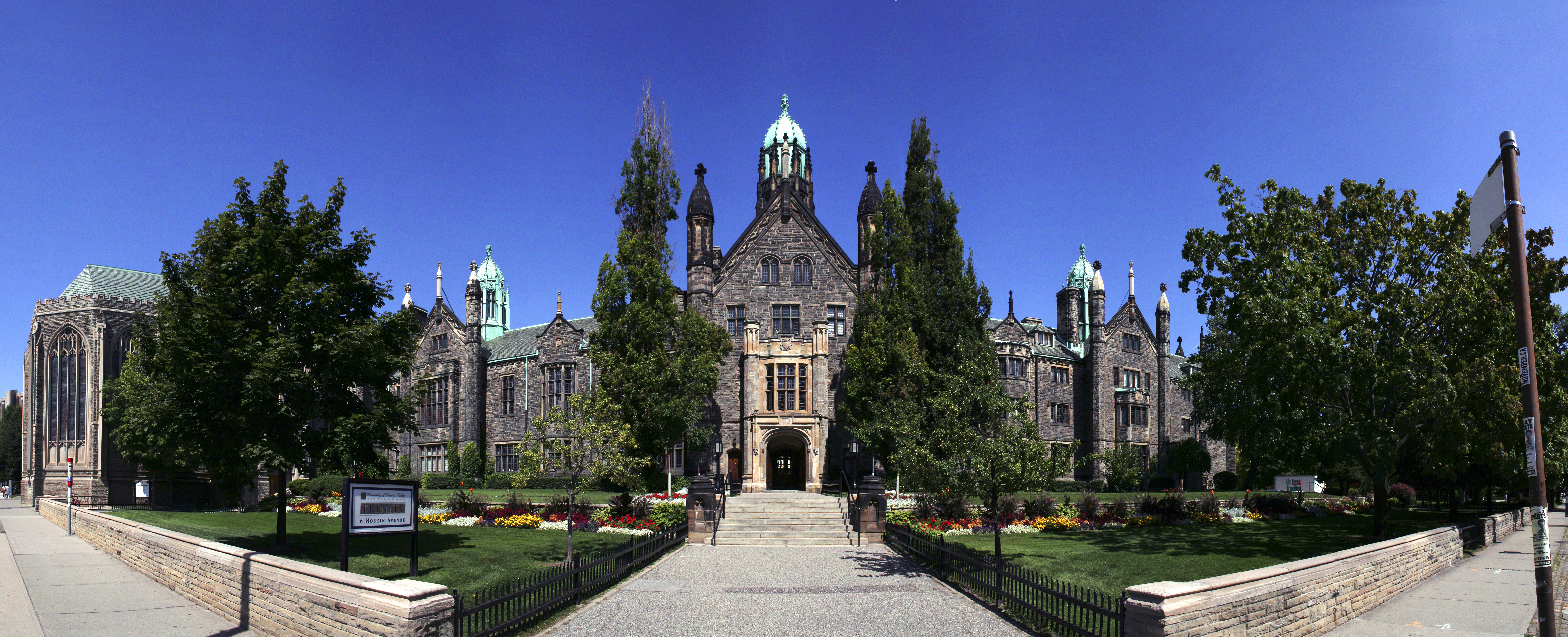 Main building of Trinity College, southern facade on Hoskin Ave.